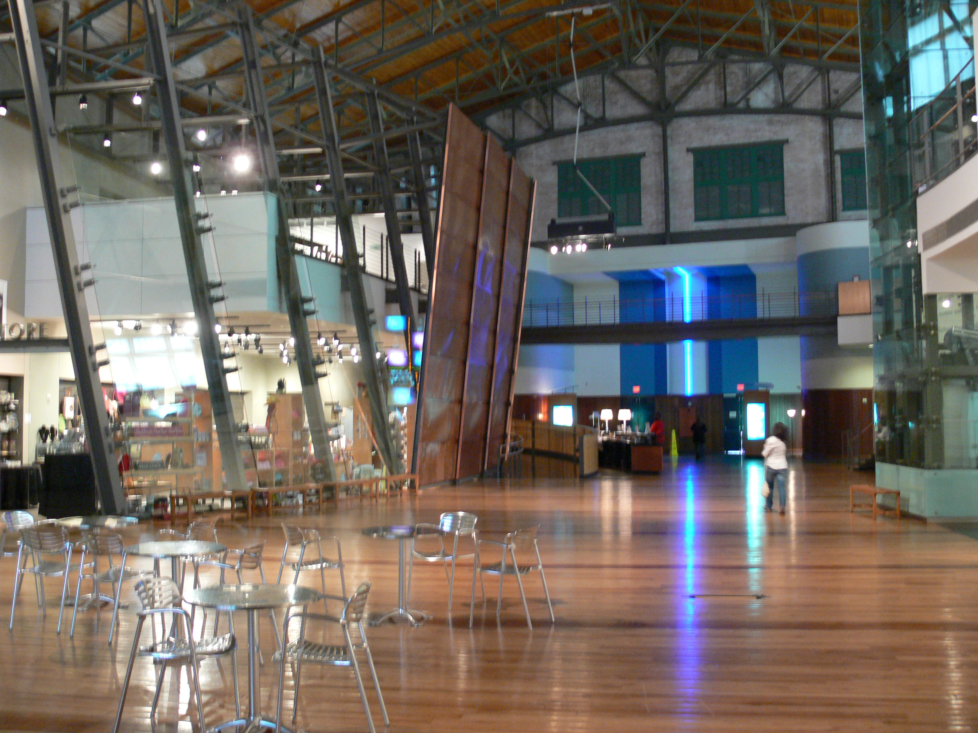 The Women's Museum, Fair Park, Dallas, Texas Main hall